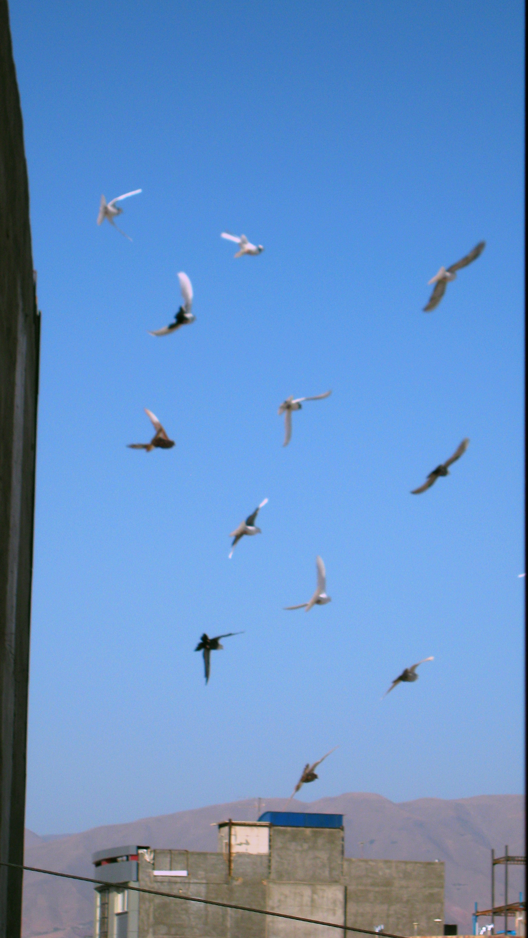 Pigeon racing - afternoon - Nishapur